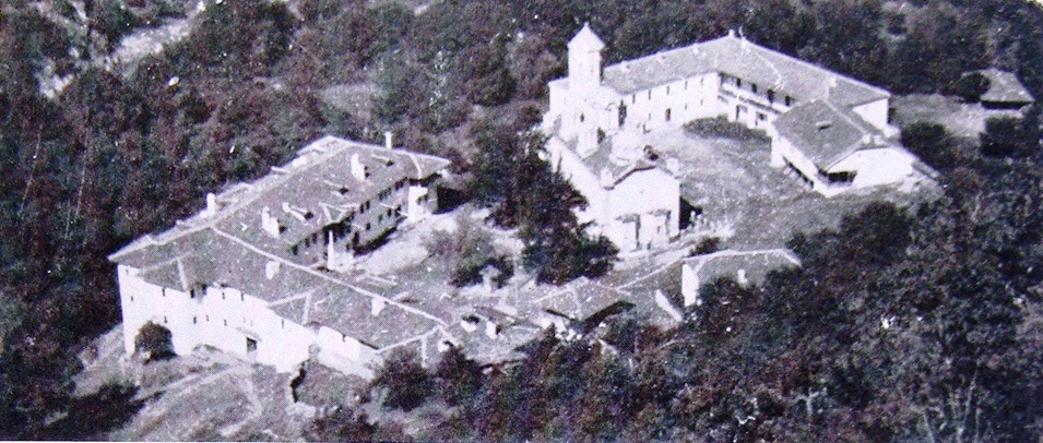 August 2, 1944, Monastir Prohor Pchinski where was held ASNOM: A view to the monastery. This media file is produced by Wikipedian in Residence in Category:Wikipedian in Residence at DARM in 2016.